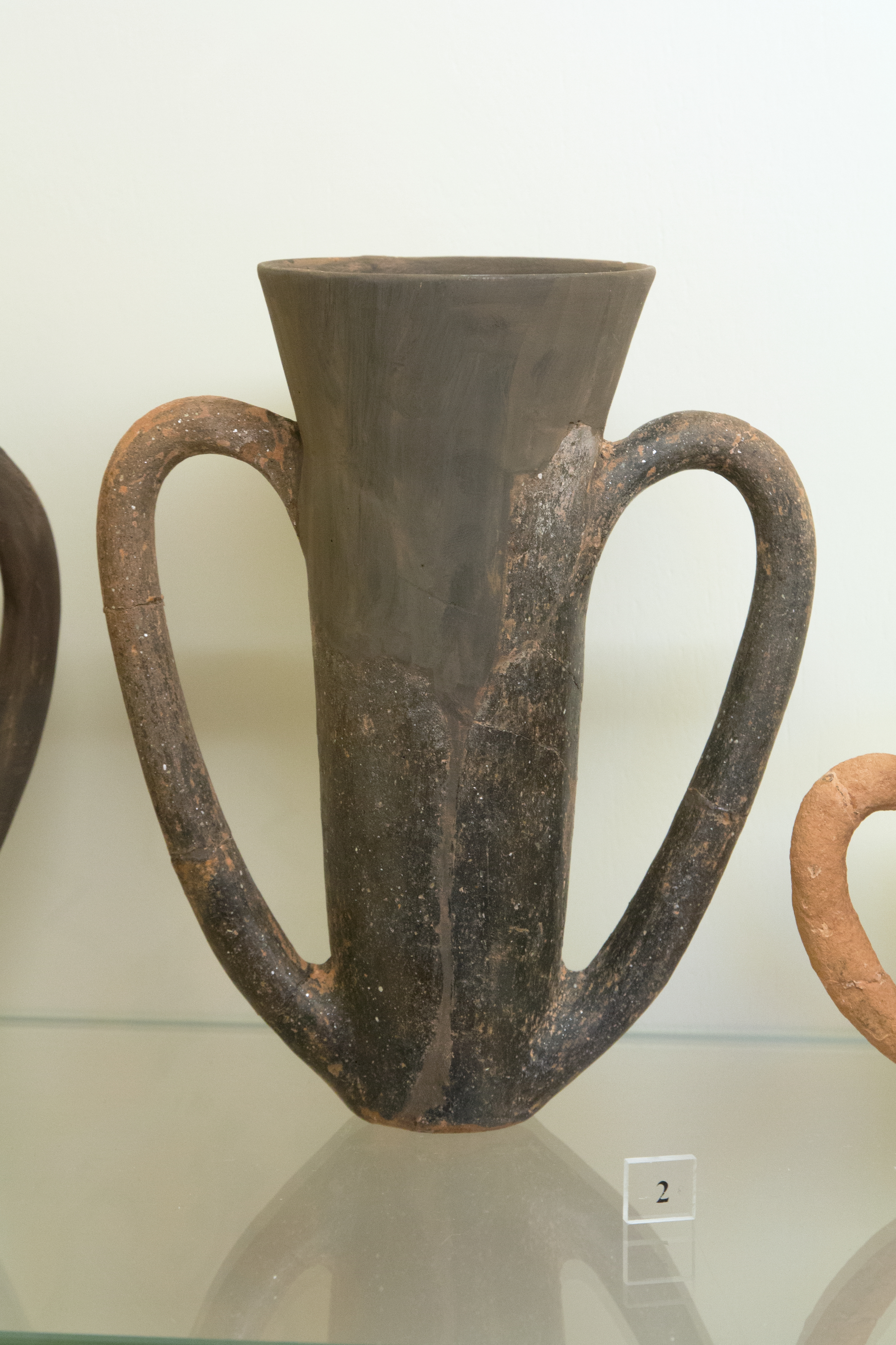 Anatolian pottery type, depas cup, no. 2 (678). From the Early Cycladic settlement of Kastri near Chalandriani. Kastri group phase, 2300 – 2200 BC. Archaeological Museum of Syros, Room 3.